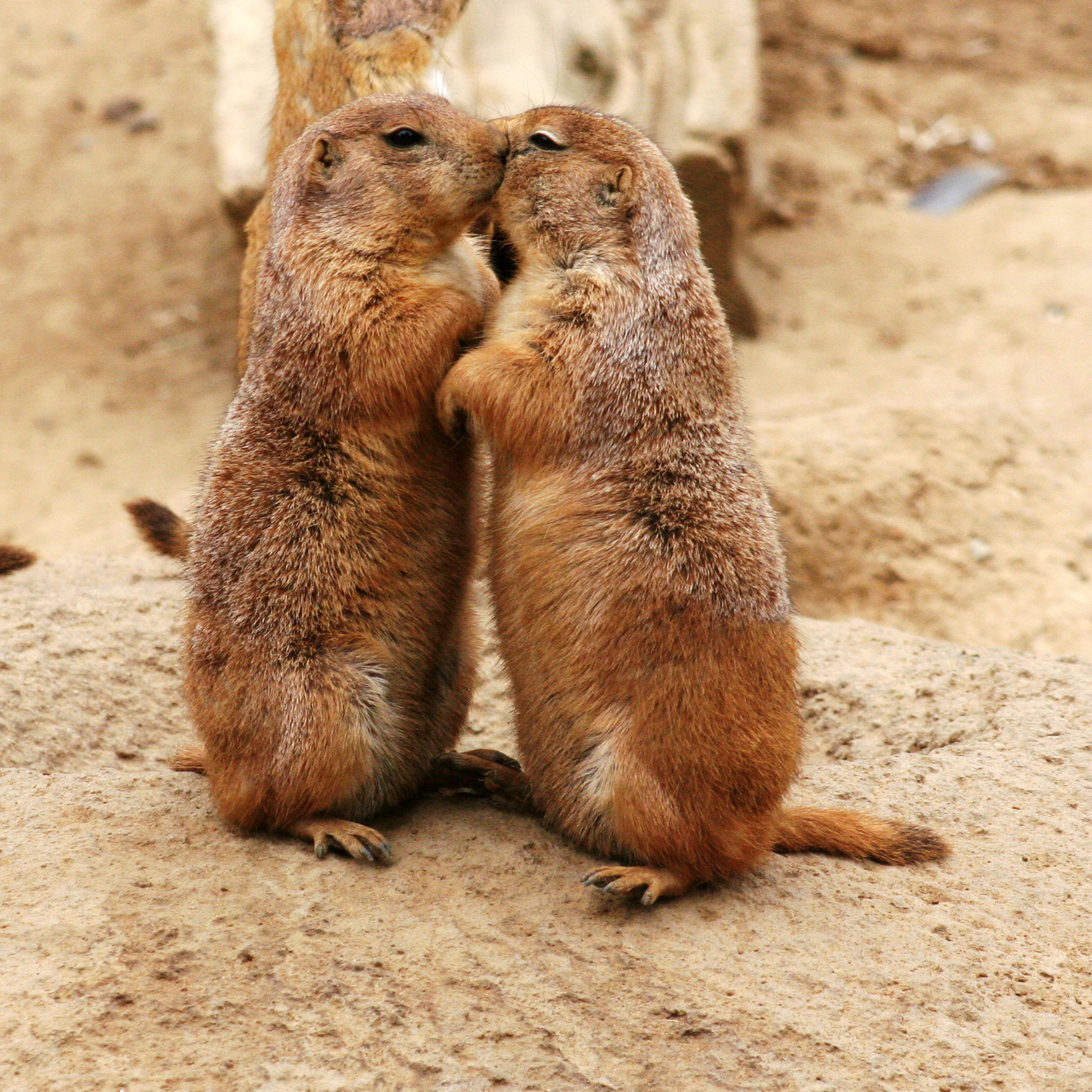 Kissing Black-tailed Prairie Dogs (Cynomys ludovicianus).